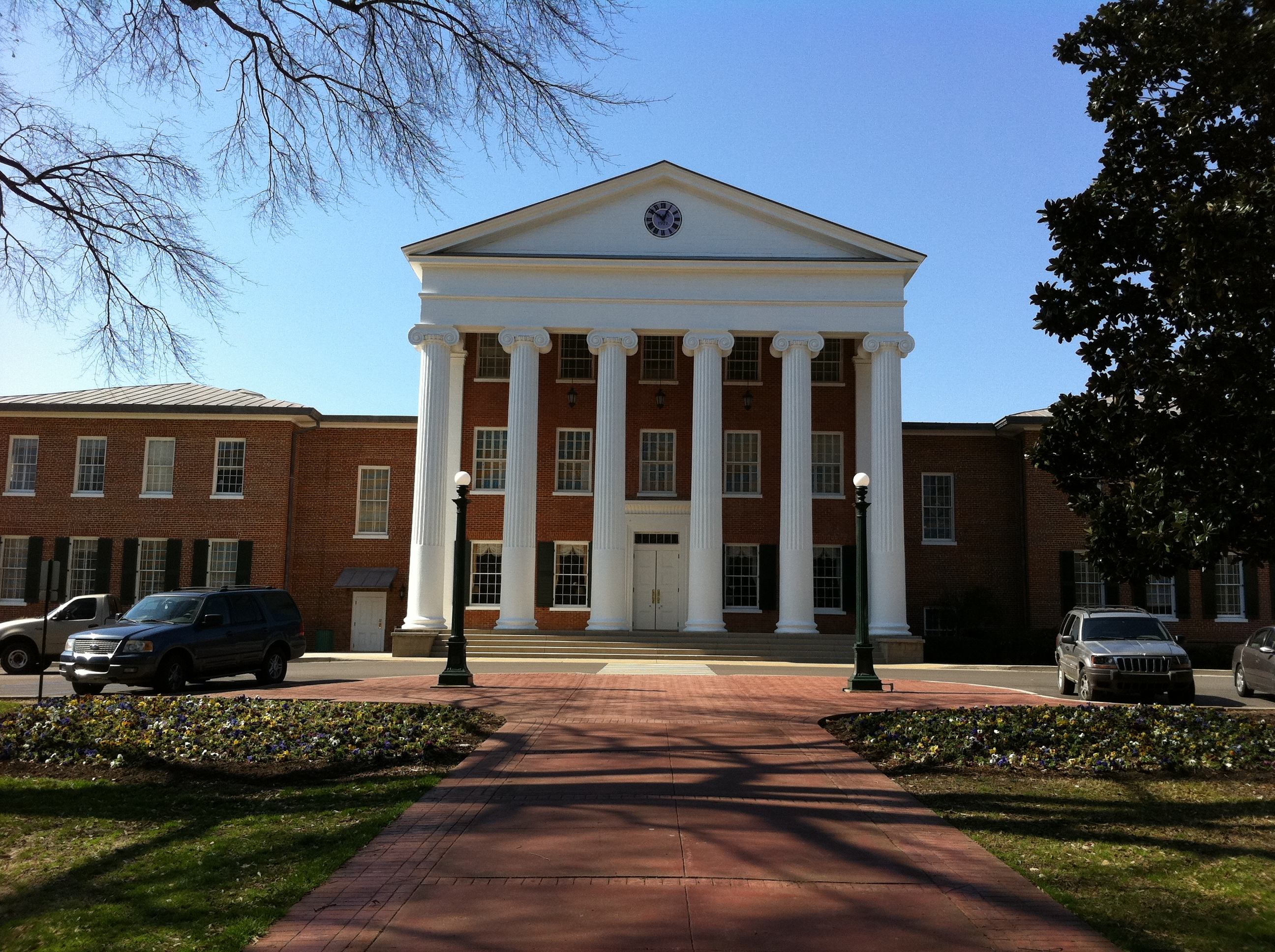 The Lyceum Building looking from within "The Circle" on the campus of the University of Mississippi in Oxford, Mississippi.